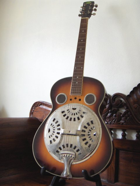 Steel guitar in the Dobro style by KayEss